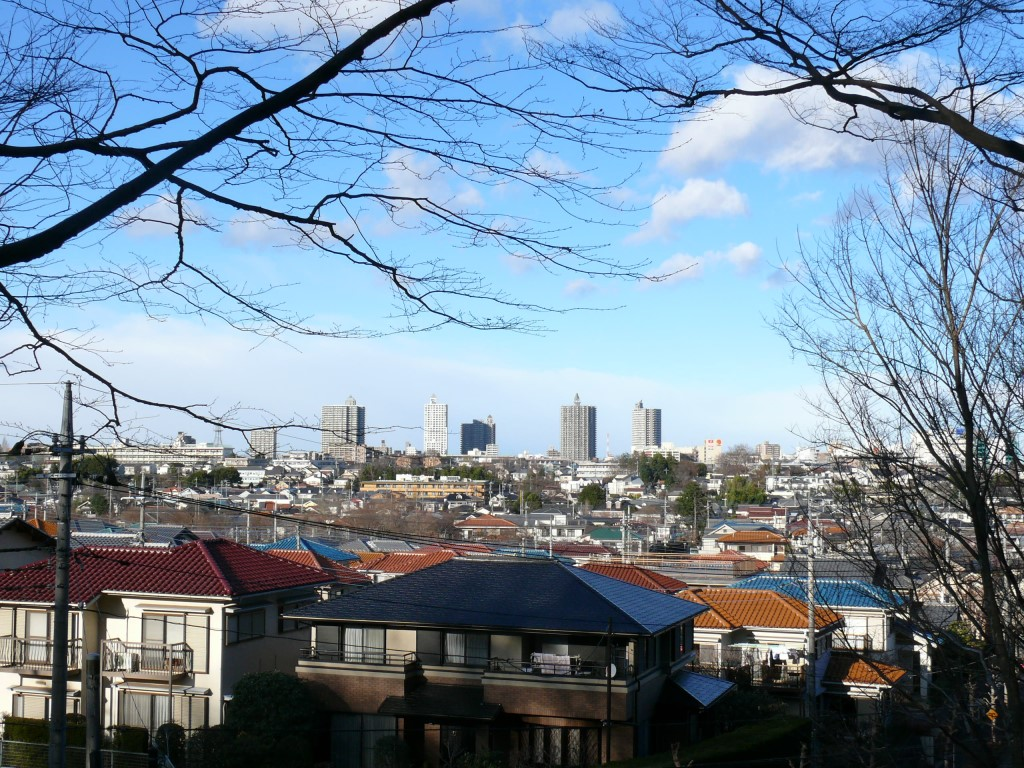 Central Tokorozawa, Saitama from Hachikokuyama.